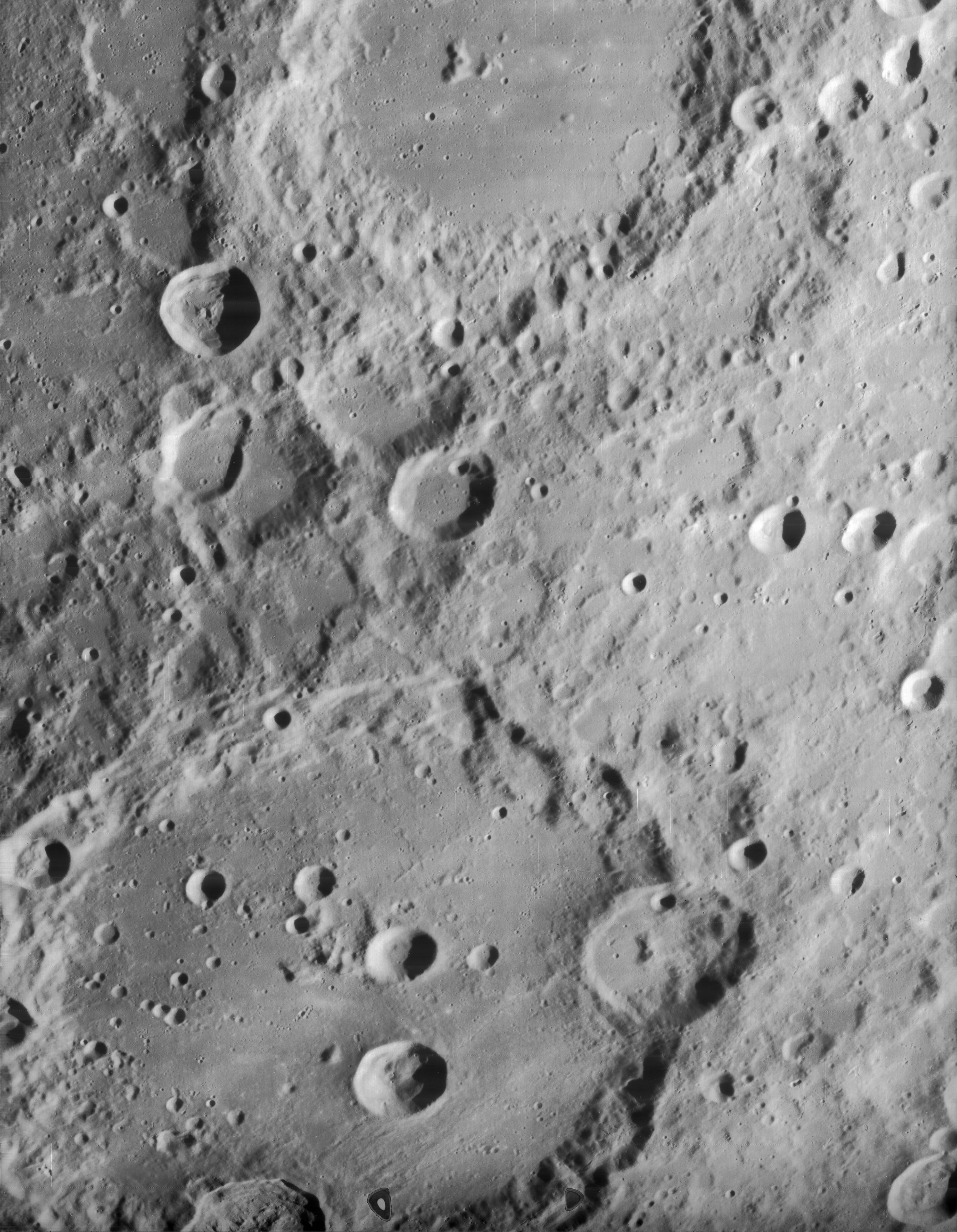 Slightly oblique view of most of craters Clavius and Maginus, on the moon. North is to upper right.